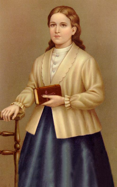 St. Narcisa de Jesus Martillo Moran